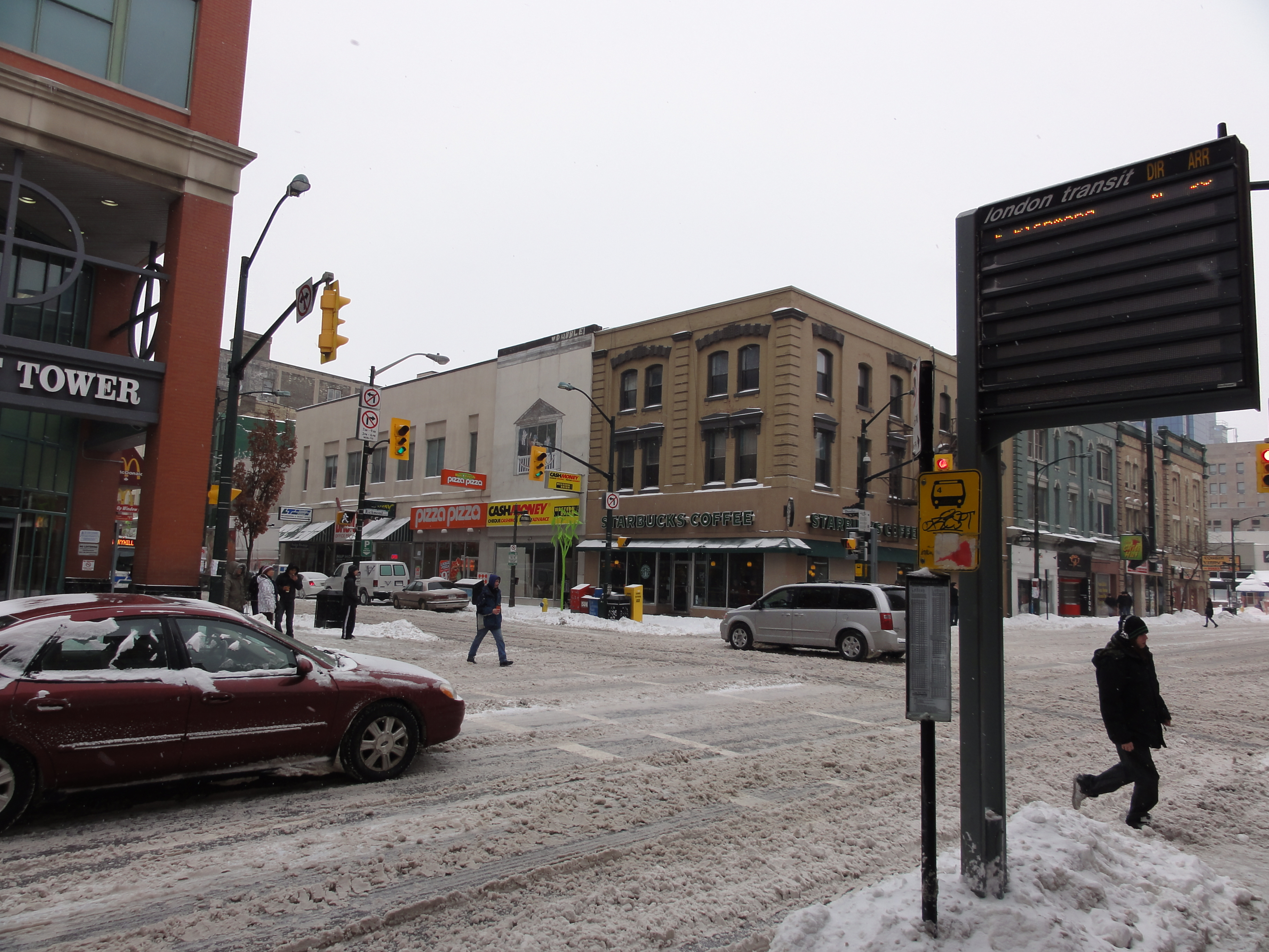 Winter scene: London, Ontario, Feb 2010